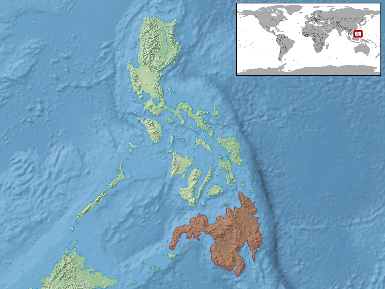 geographic distribution of Pseudogekko labialis (Native: Philippines)